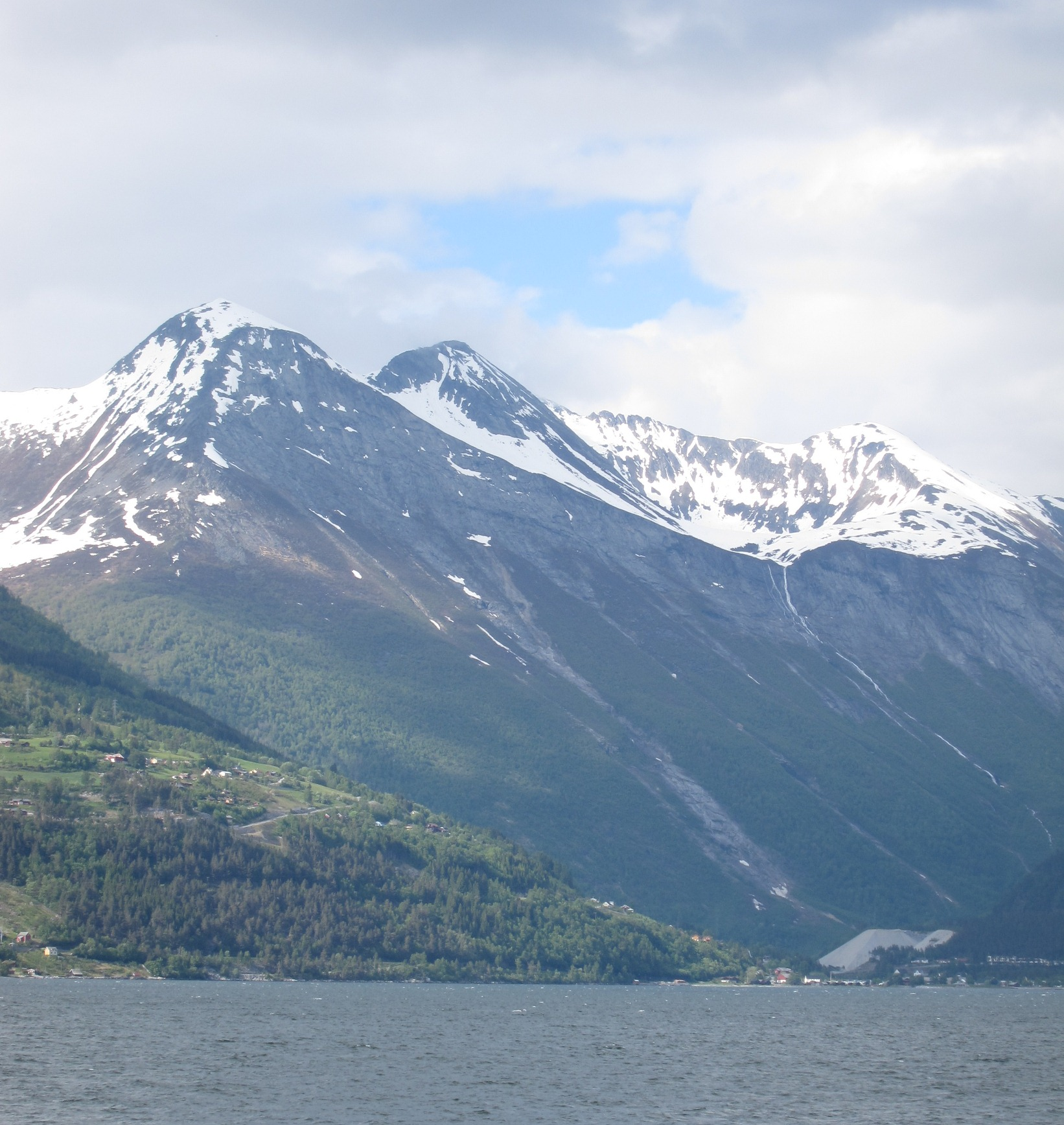 Valldal (Norddal municipality in Norway) seen across the fjord. Åsen left, Muri centre, Mt Ormula left (pyramide shape)